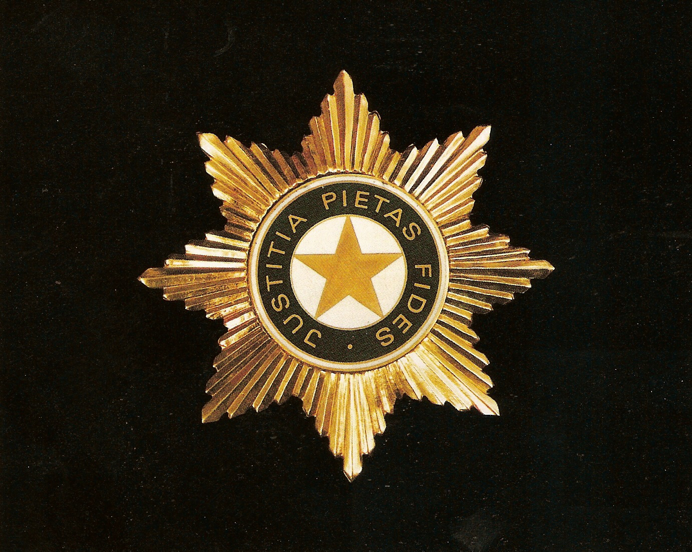 The Honourable Order of the Yellow Star for the bearer of the Sash of Honour (Suriname)